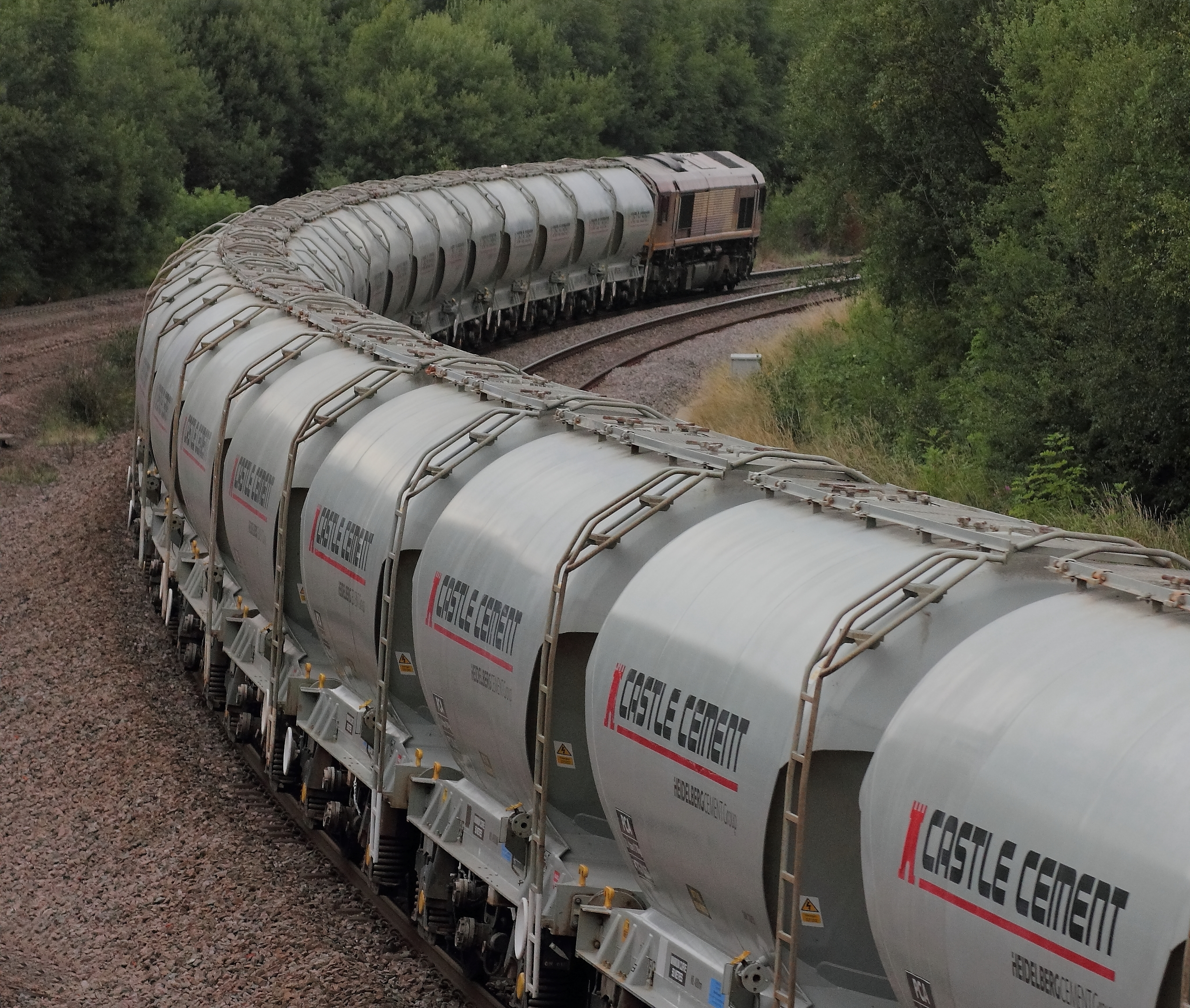 Wagons on 6F94 (Previous shot) these wagons always look immaculate.